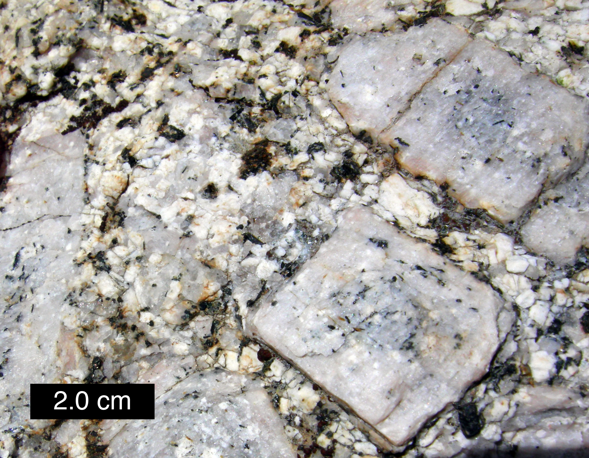 Potassium feldspar crystals in a granite, eastern Sierra Nevada, Rock Creek Canyon, California.